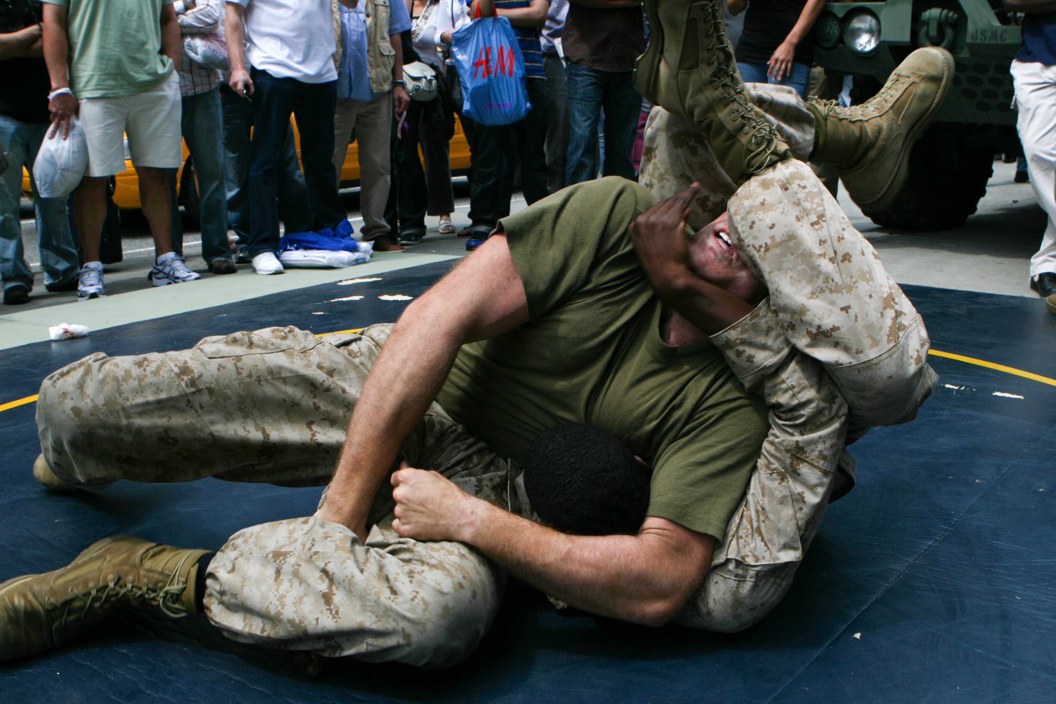 U.S. Marines with Special Marine Ground Task Force demonstrated the Marine Corps Martial Arts Program as well as displayed weaponry in support of Fleet Week New York City 2010. More than 3,000 Marines, Sailors and Coast Guardsmen will be in the area participating in community outreach events and equipment demonstrations. This is the 26th year New York City has hosted the sea services for Fleet Week. (U.S. Marine Corps photo by Cpl. Patrick P. Evenson)